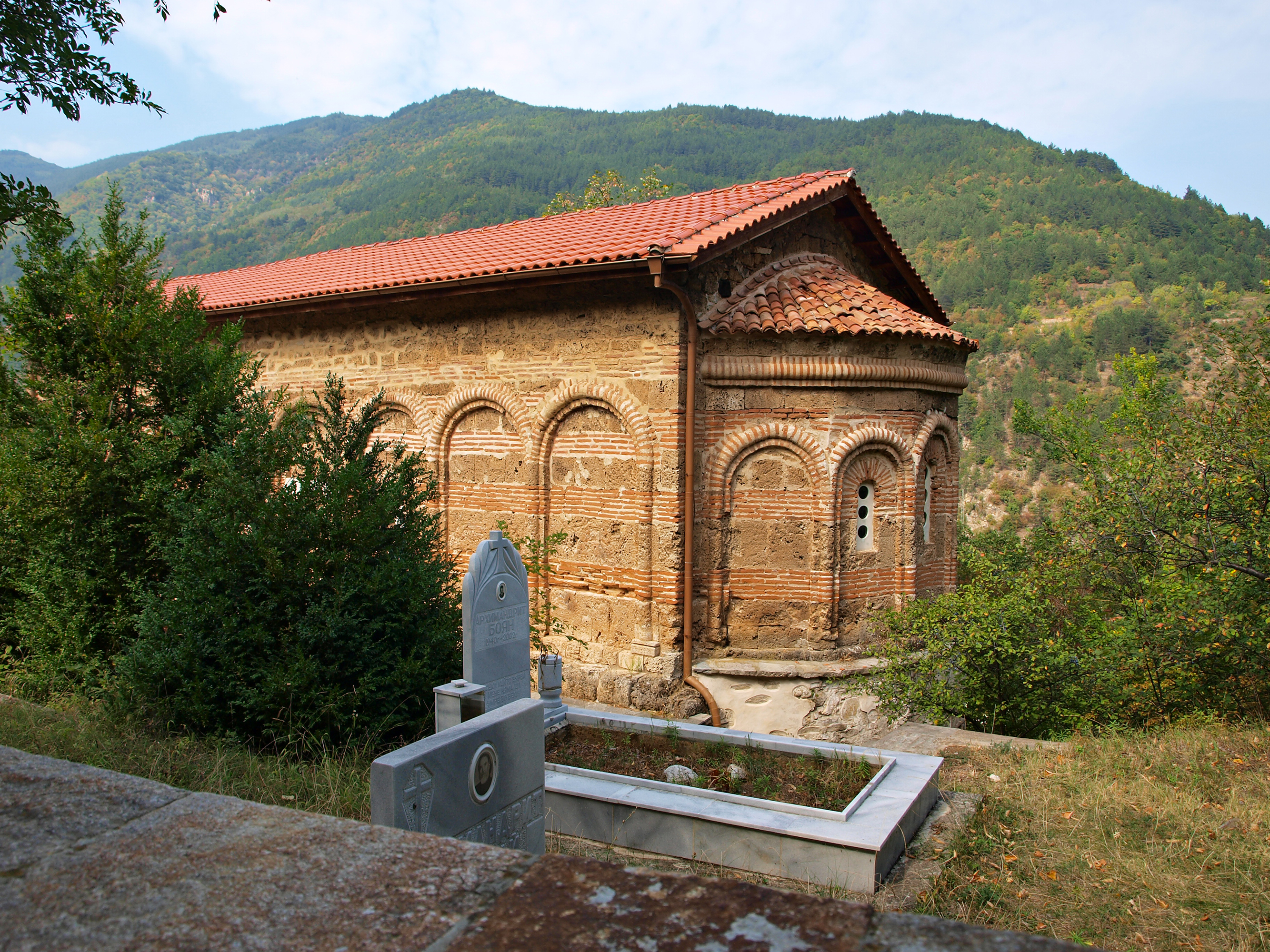 Ossuary of the Bachkovo Monastery, Bachkovo, Bulgaria